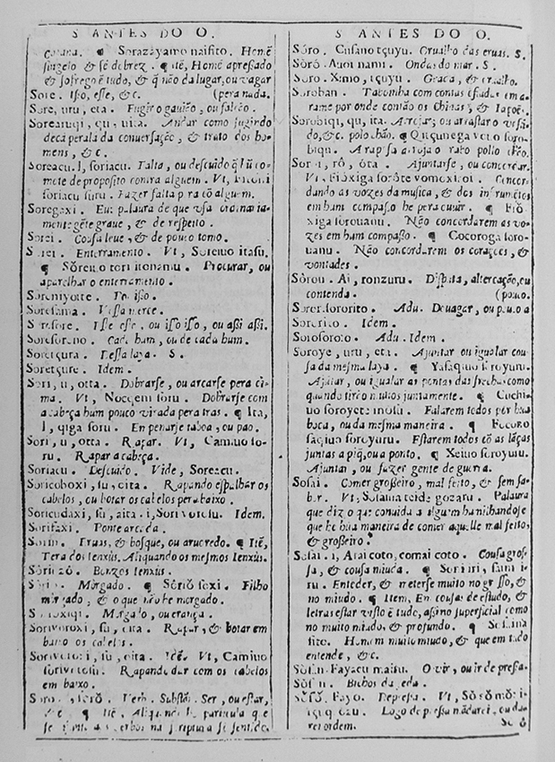 Sample page from the Japanese-Portugiese dictionary "Vocabulario da Lingoa de Iapam com Adeclaração em Portugues", printed in Nagasaki in 1603 by the Jesuit Press.